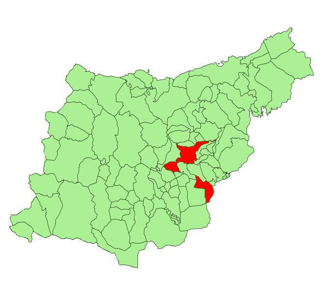 Tolosa municipality in the province of Guipuzcoa.